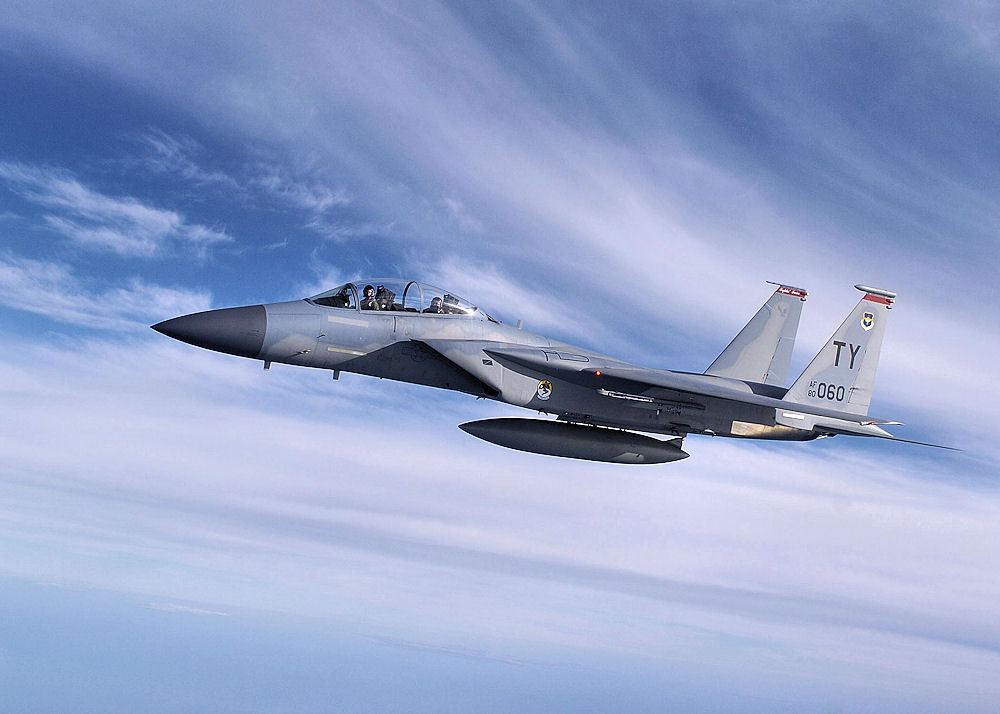 F-15D 80-060, 325th Operations Group, Tyndall AFB, Florida